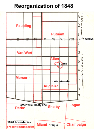 Changes in county boundaries in northwest Ohio due to the reorganization of 1848